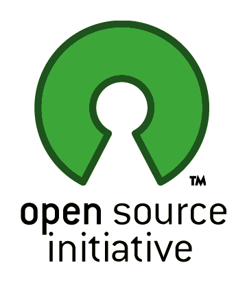 OSI logo trademark of Open Source Initiative